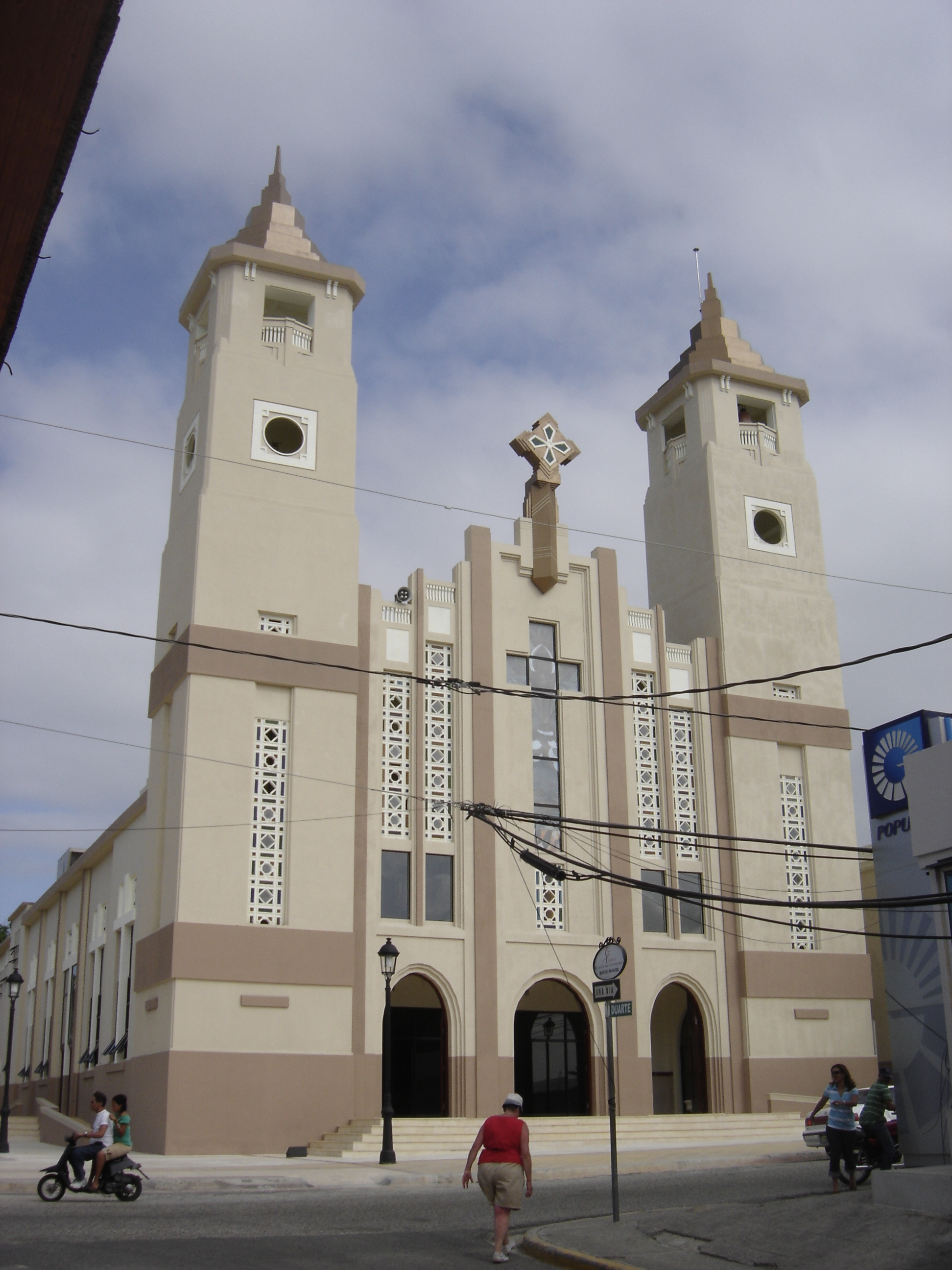 Façade principale de la cathédrale de Porto Plata